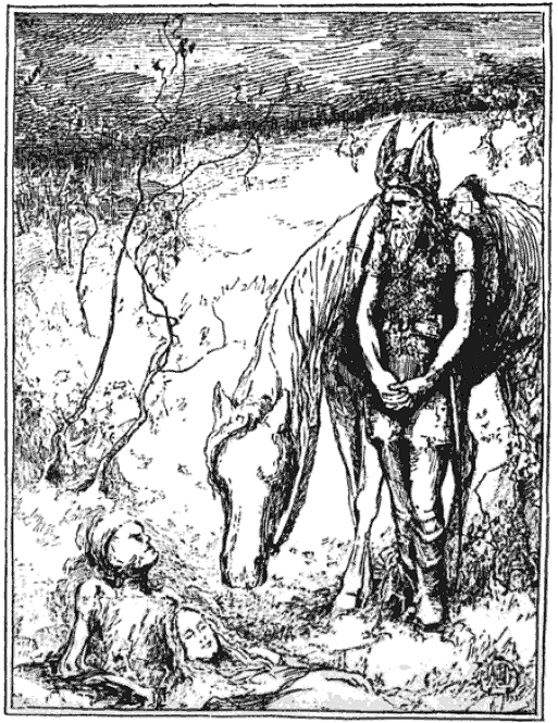 Captioned as Odin Entering Midgard before Ragnarök.